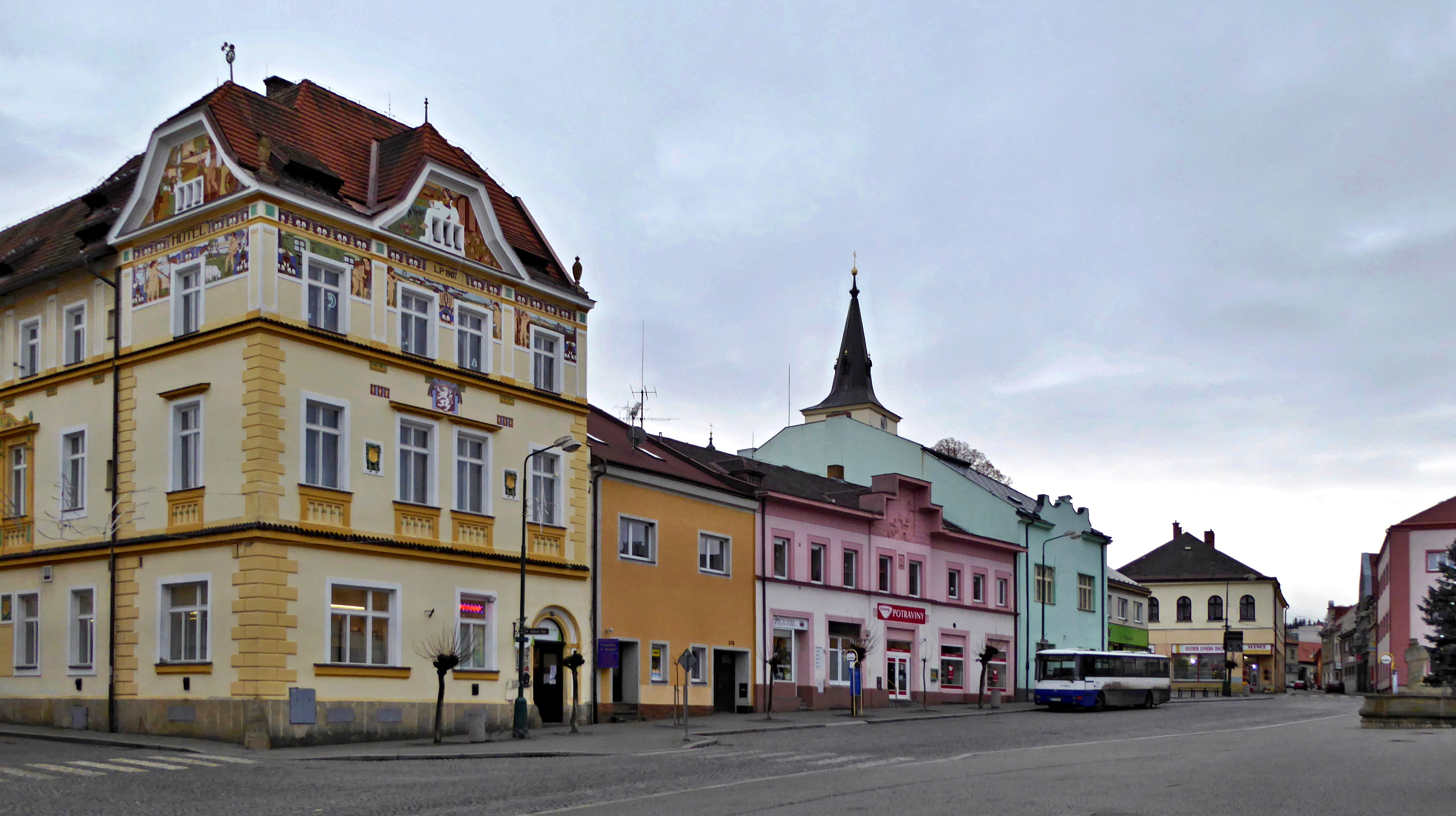 Palacky Square; center of town. Photo location - Czechia, Pardubice Region, Skuteč town.